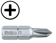 The Frearson screw drive, also known as the Reed and Prince screw drive, is similar to a Phillips but the Frearson has a sharp tip and larger angle in the V shape